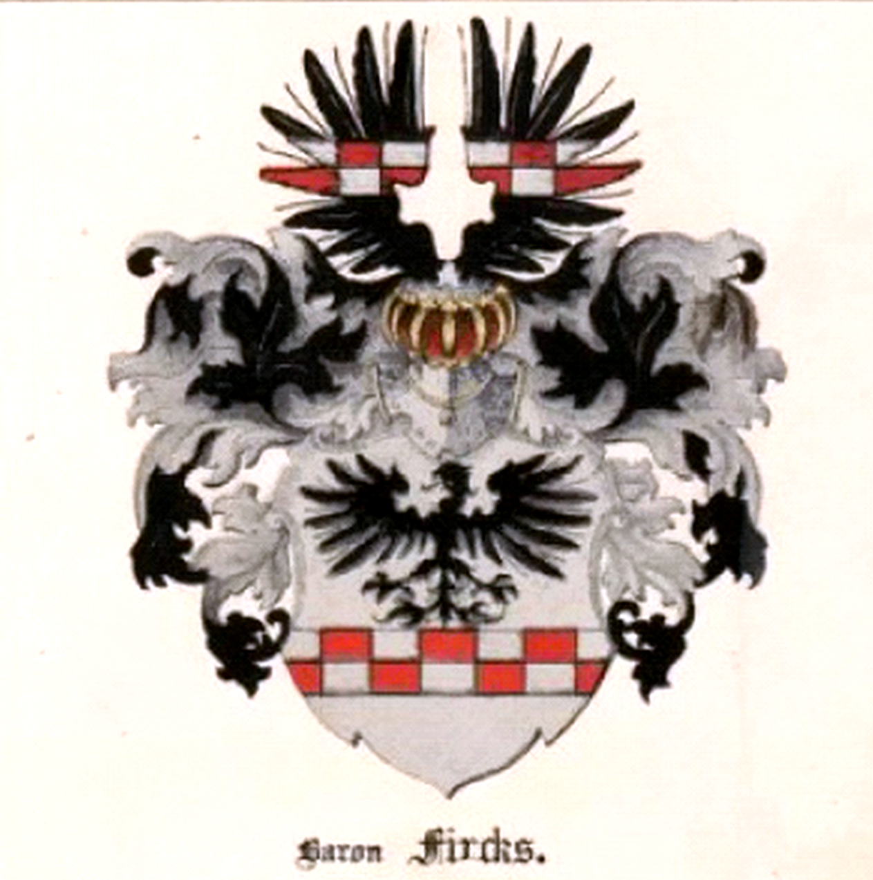 Coat of Arms of Baron Fircks family